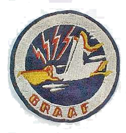 Emblem of the USAAF Radar School at Boca Raton Army Airfield, Florida (World War II)